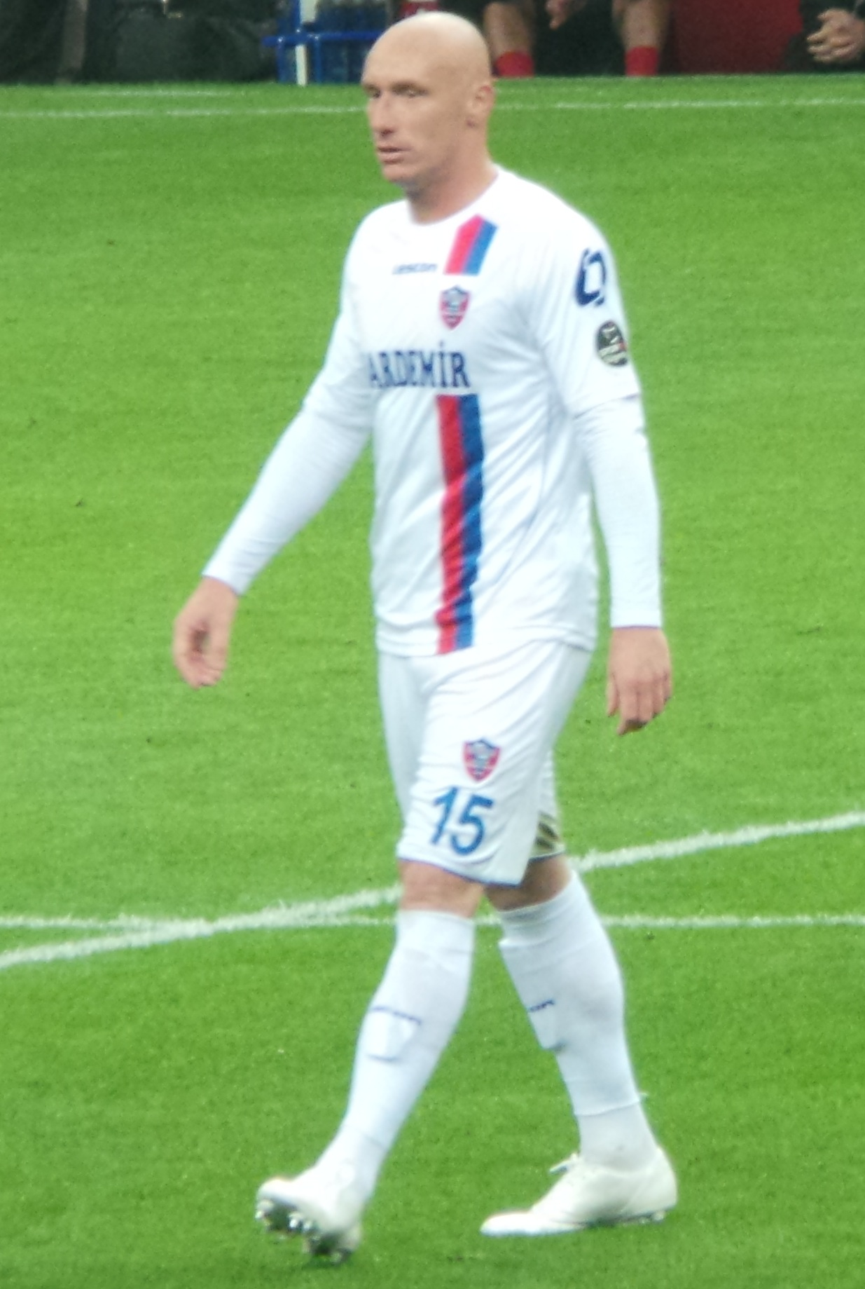 Sébastien Puygrenier against G.S